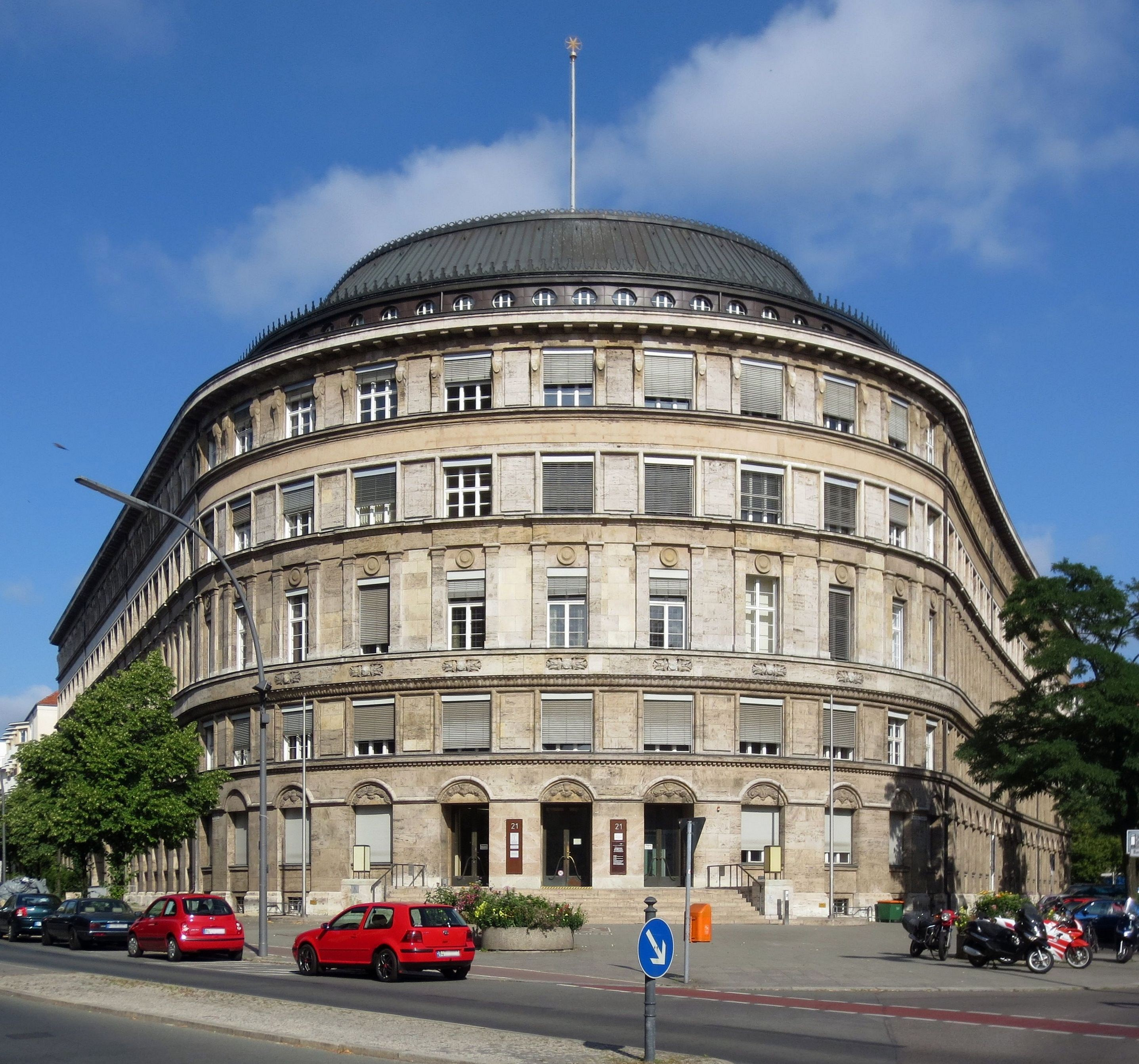 The Nordstern House at Badensche Straße No. 2, corner of Salzburger Straße No. 21 (on the right), in Berlin-Schöneberg, which today is seat of the Berlin Senate Department for Justice and Consumer Protection. The building was constructed from 1912 to 1914 to a design by Paul Mebes. It has been designated as a cultural heritage monument.